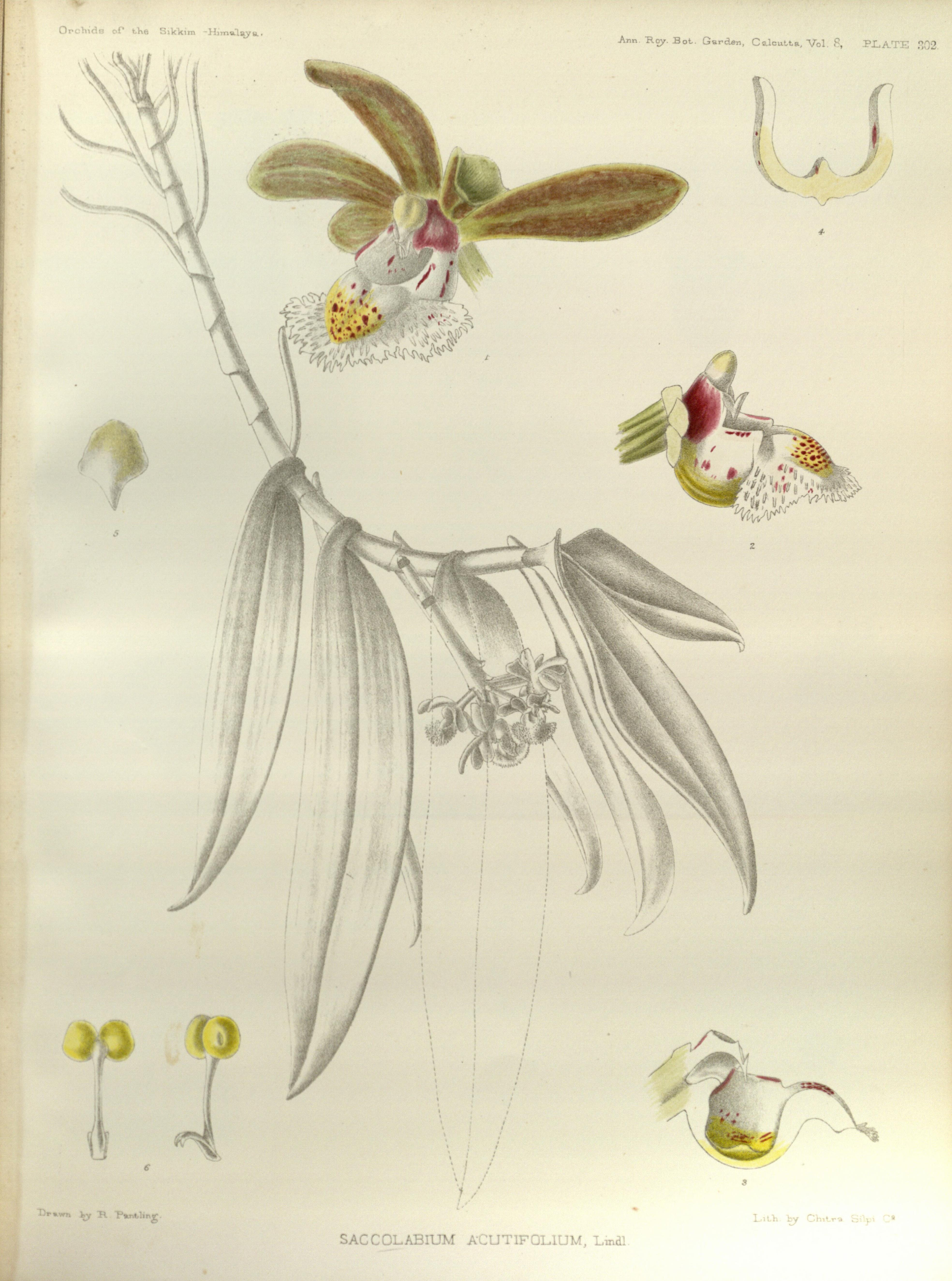 Gastrochilus acutifolius